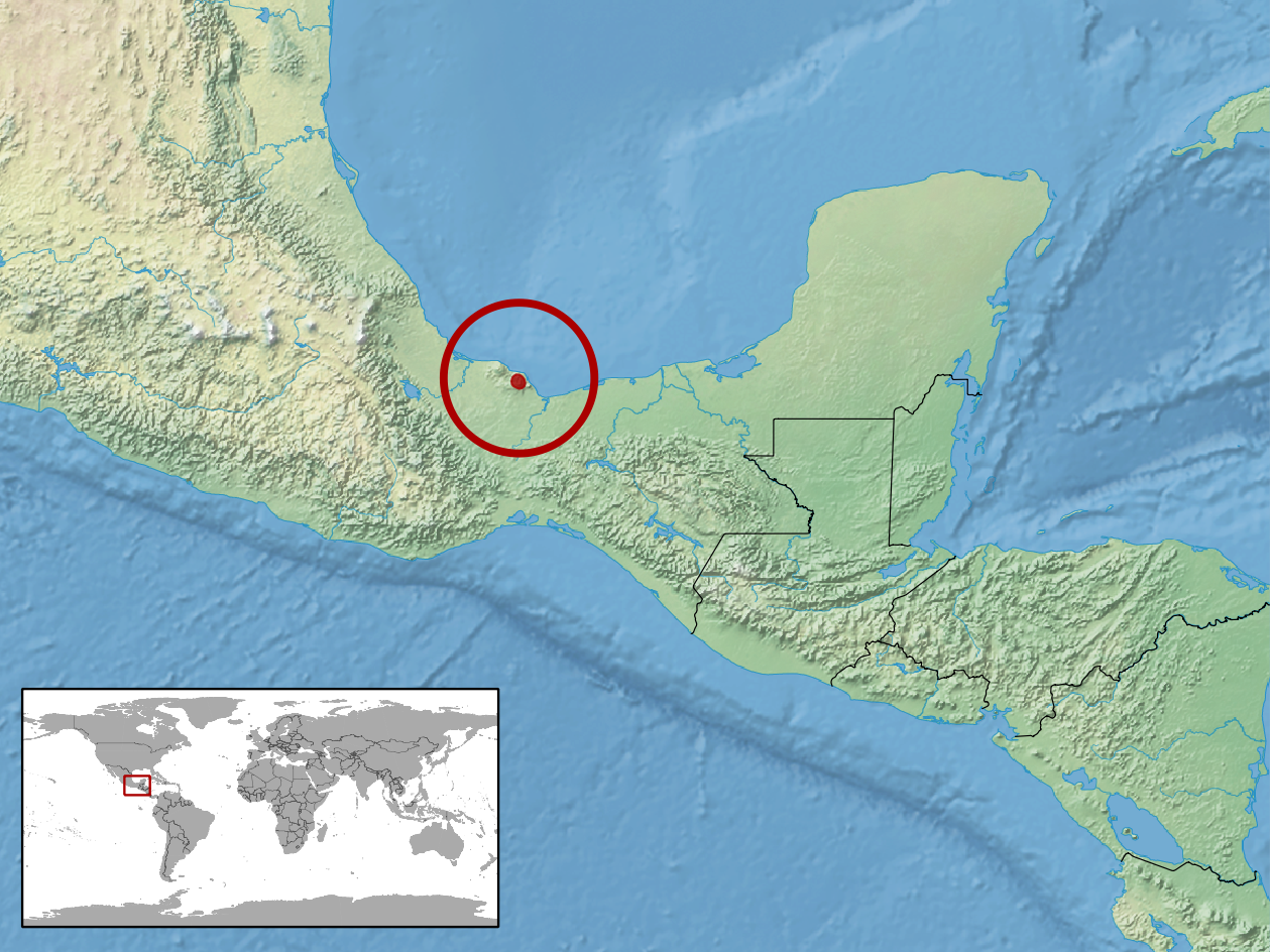 geographic distribution of Abronia chiszari (Native: Mexico)